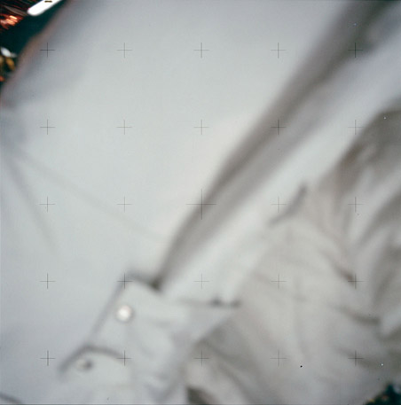 Accidental exposure of a plate showing images of the reseau crosses against a spacesuit.